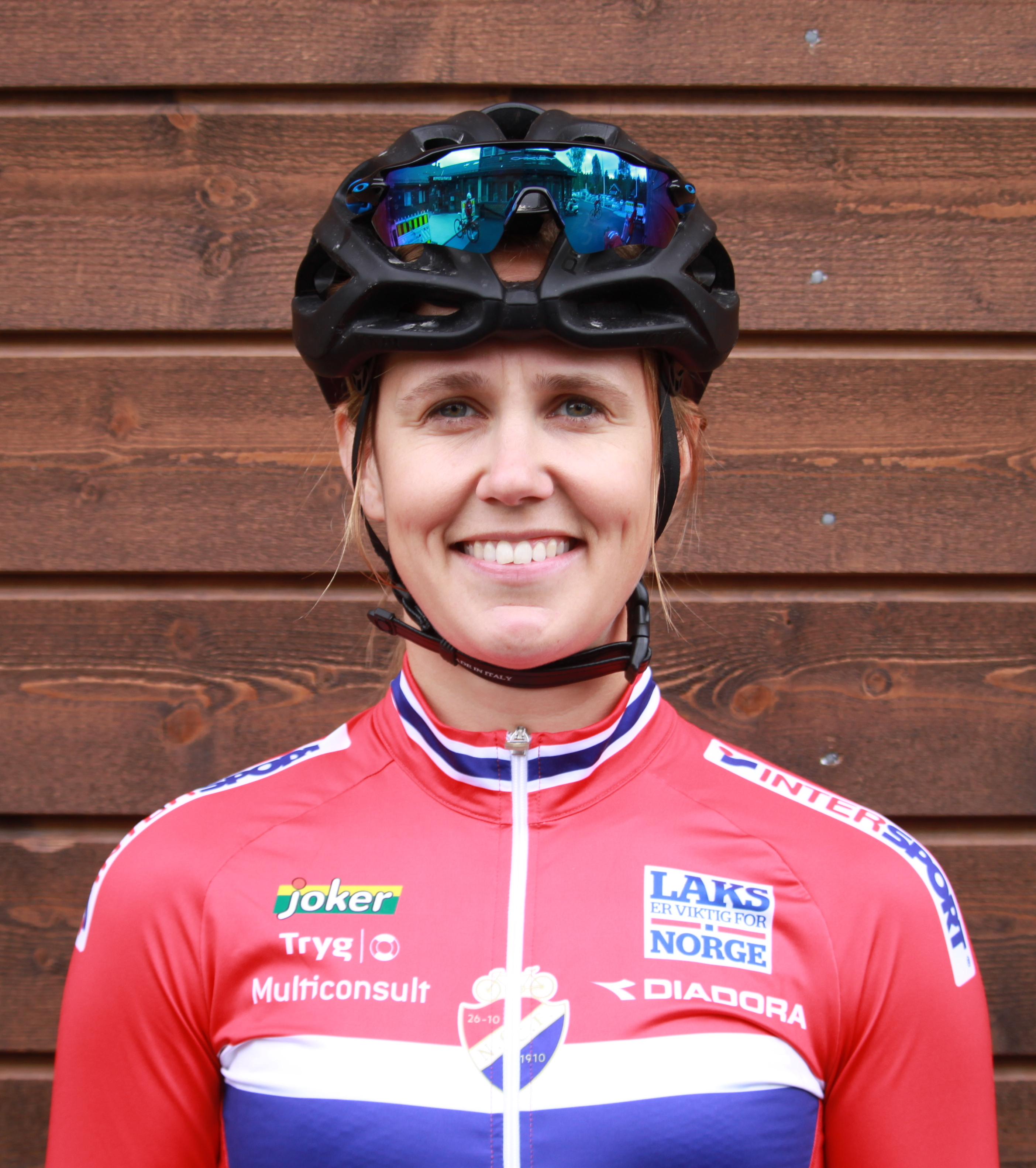 Ingrid Moe, Norwegian cylist, at the 2017 UCI Road World Championships in Bergen.